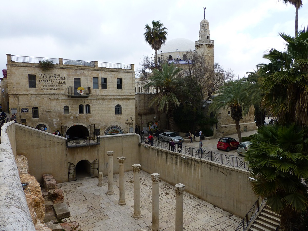 Remnants of the old town (Jerusalem, 2013) Jerusalem